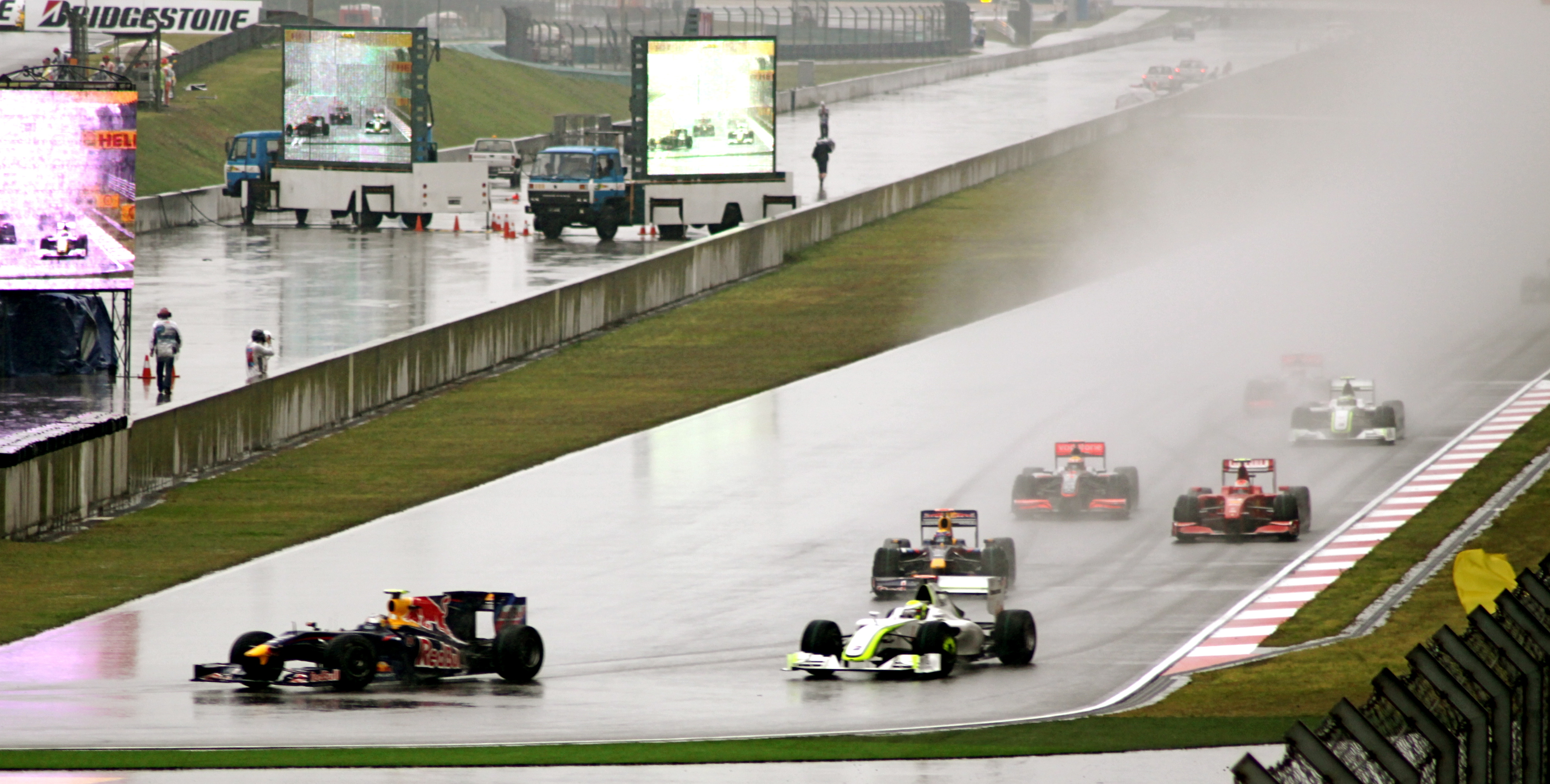 Peloton China 09